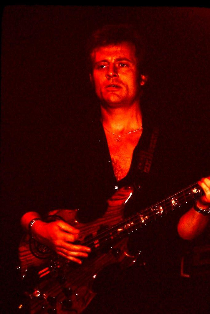 Bassist John Paul Jones on stage with Led Zeppelin in Mannheim in 1980.